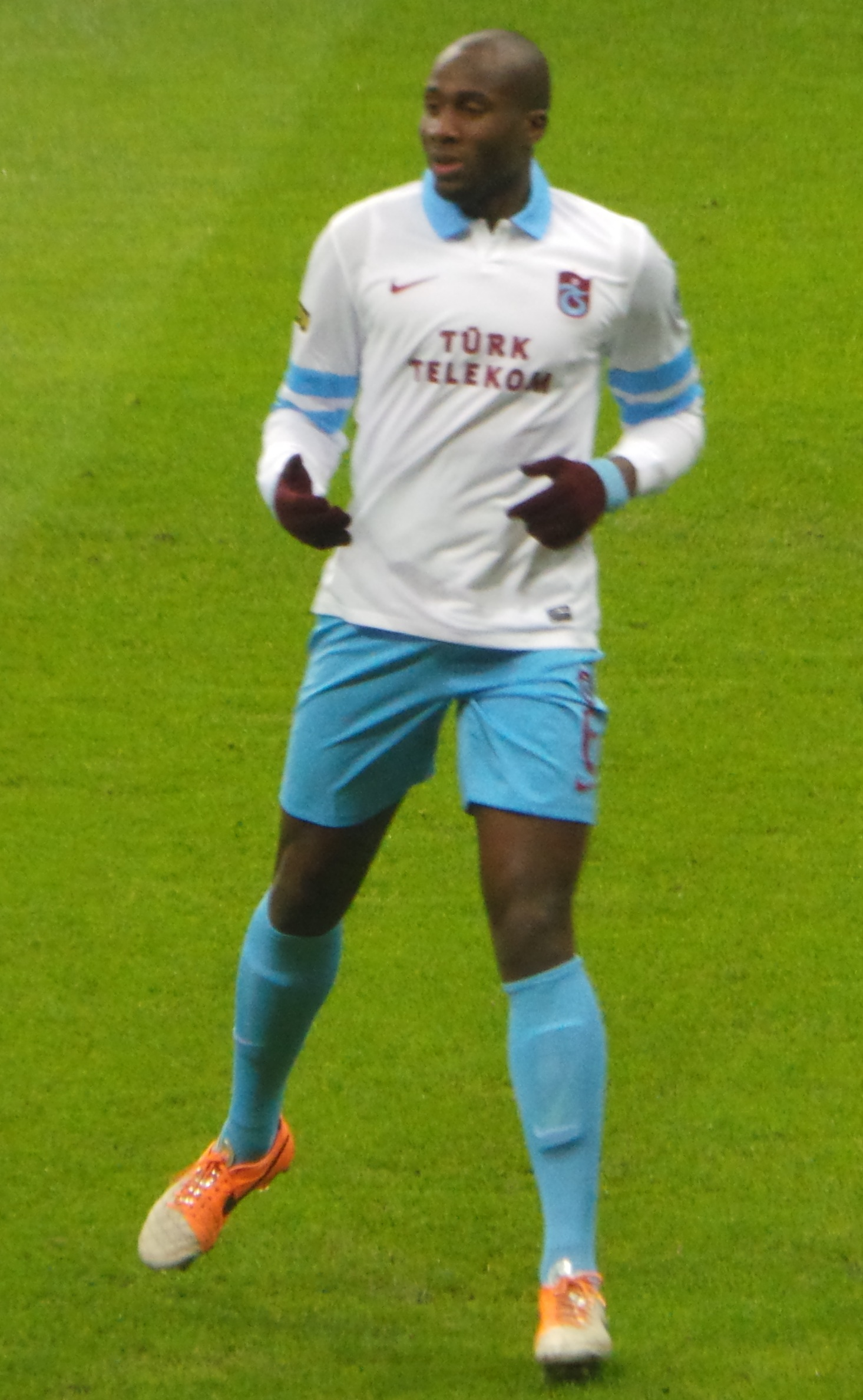 Souleymane Bamba